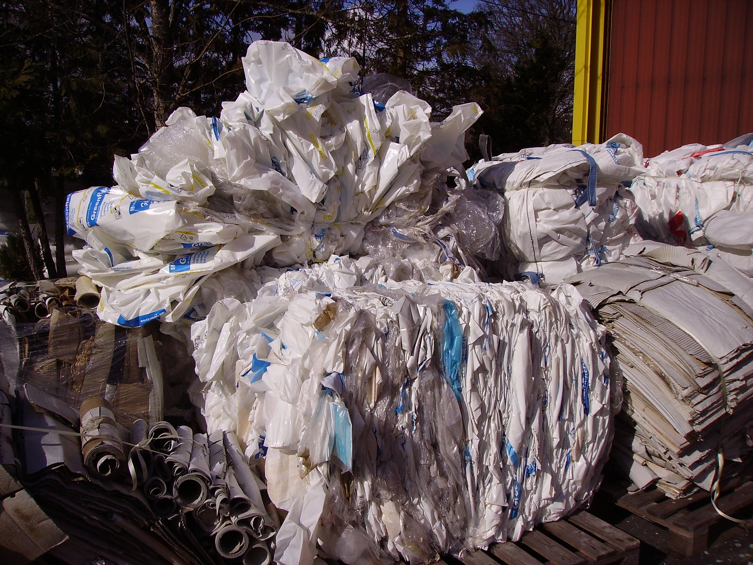 Industrial waste collection (plastic bags and cardboards).